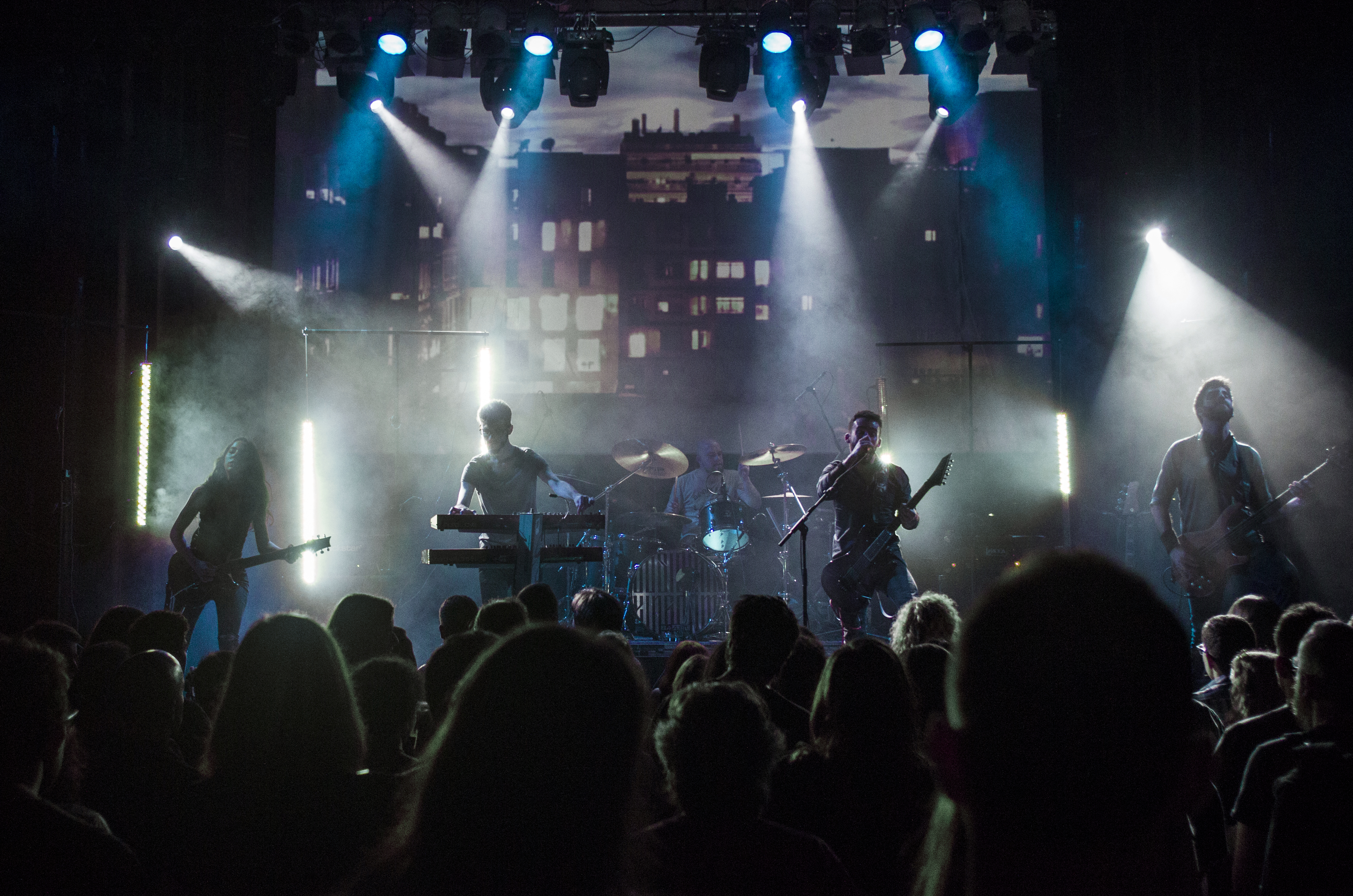 Obsidian Kingdom playing live in Barcelona, 2016